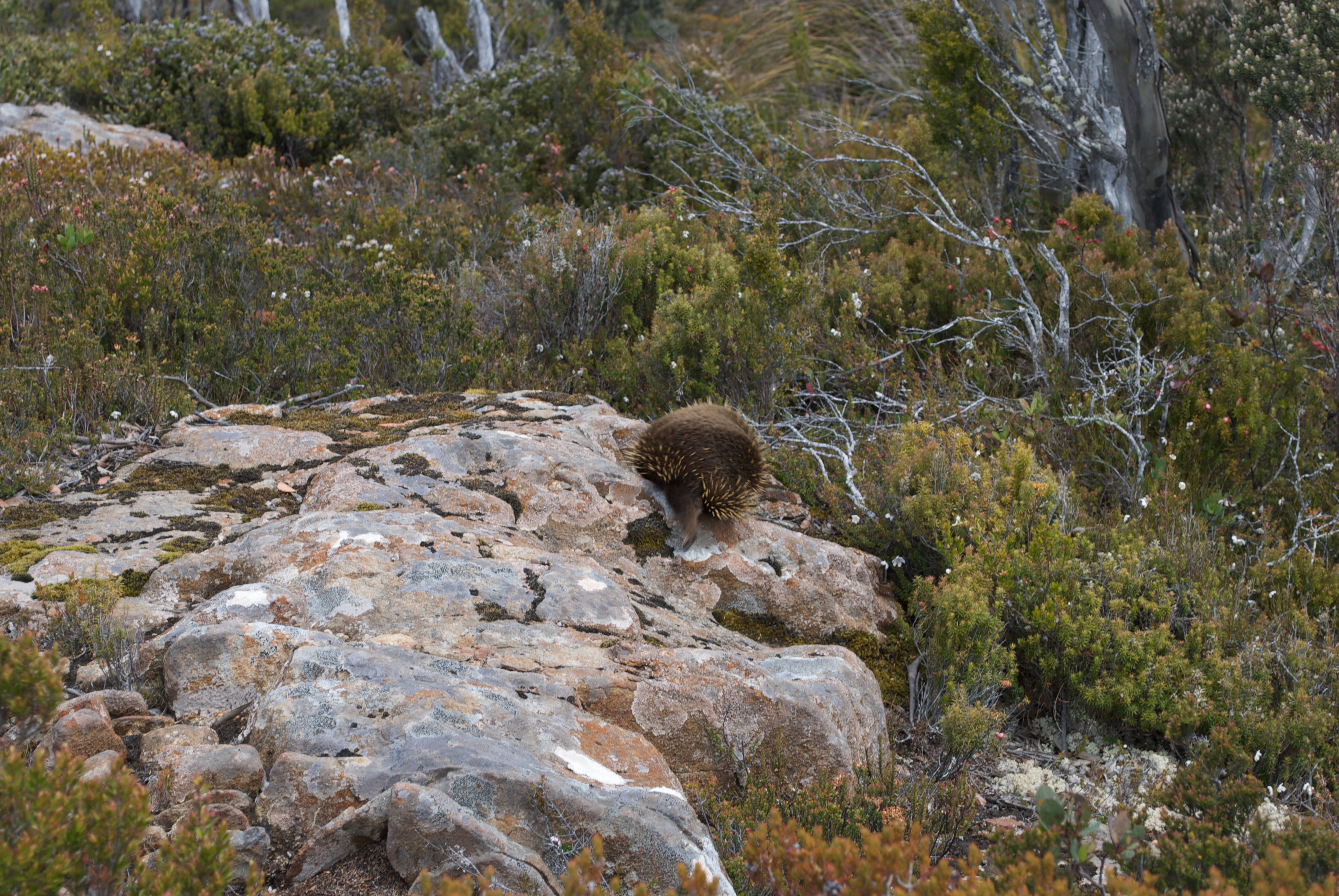 Tachyglossus aculeatus um southern Tasmania (detail on habitat)